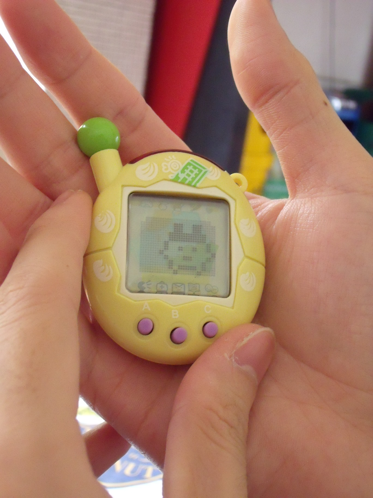 My very own Tamagotchi.